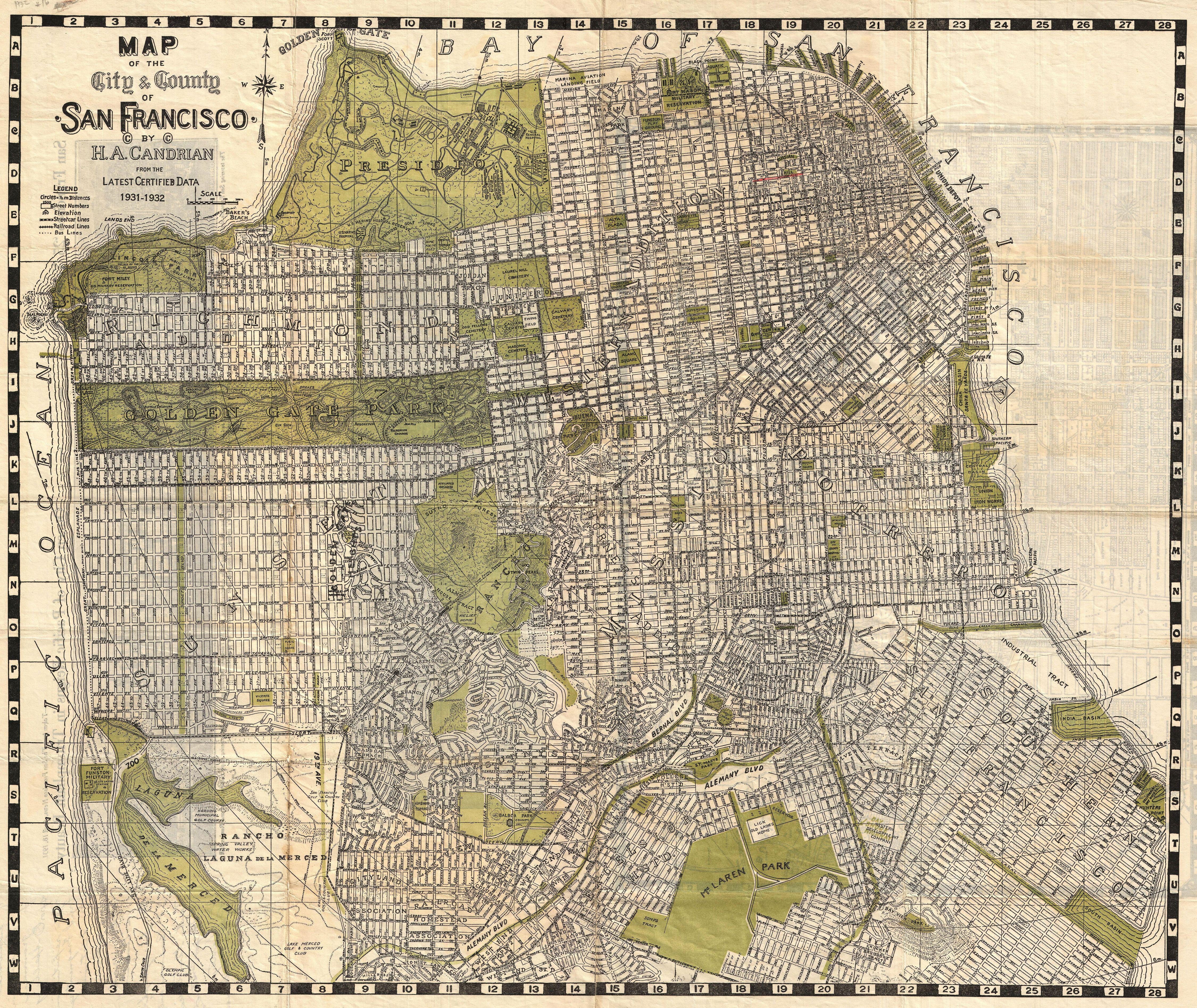 An appealing 1932 art deco style pocket map of San Francisco, California, by H. A. Candrian. Issued just prior to World War II this map covers the city from Presidio Park as far south as McLaren Park and the Laguna de la Merced. The map names all major and minor streets as well as trolley lines, lakes, golf courses, piers, municipal buildings, colleges, and military installations. Parks and public areas are highlighted in green. Surrounded by an art deco segmented border. Title and legend in the upper right quadrant.